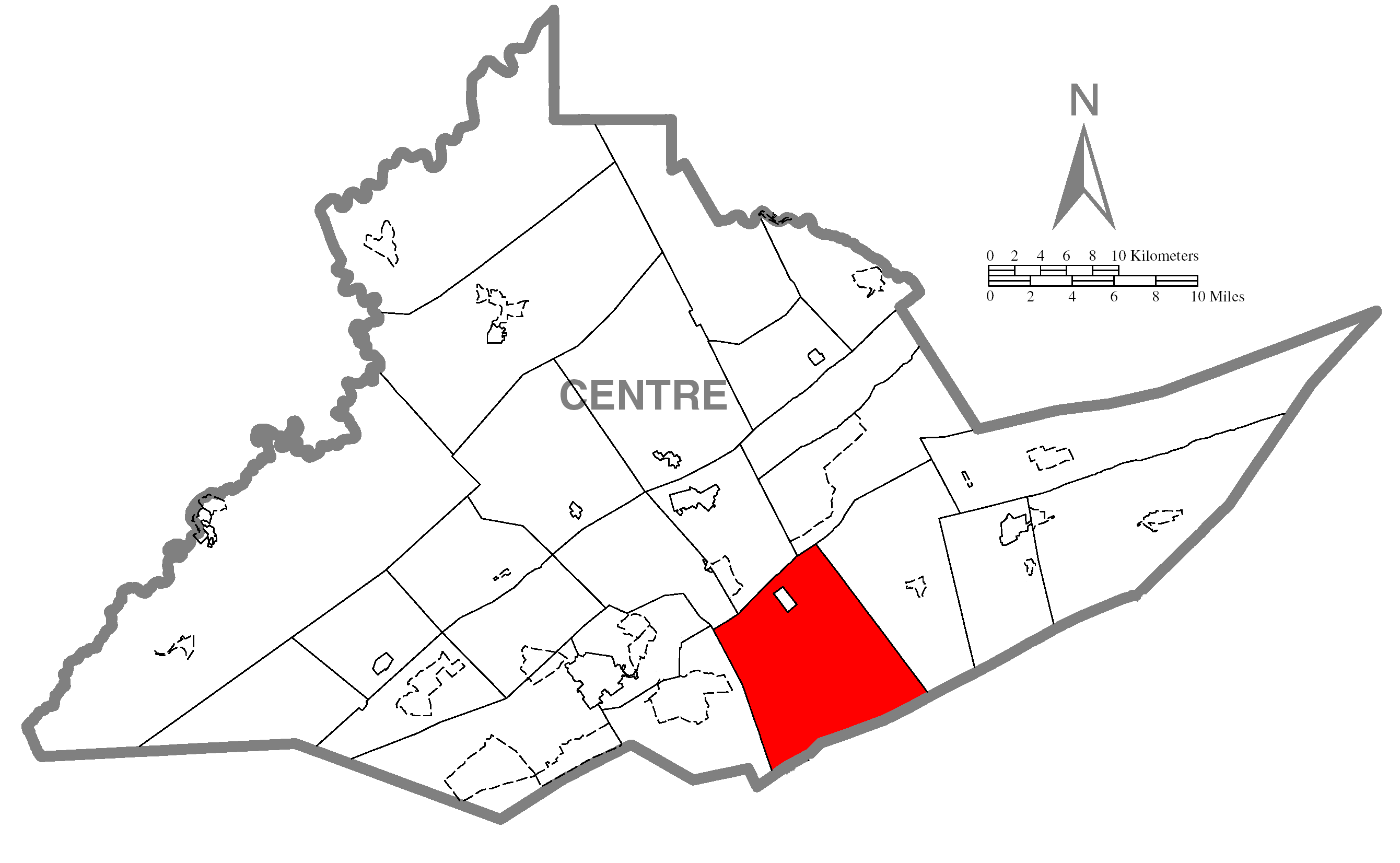 A map of Centre County showing Potter Township, Pennsylvania (alternate) highlighted on the map.